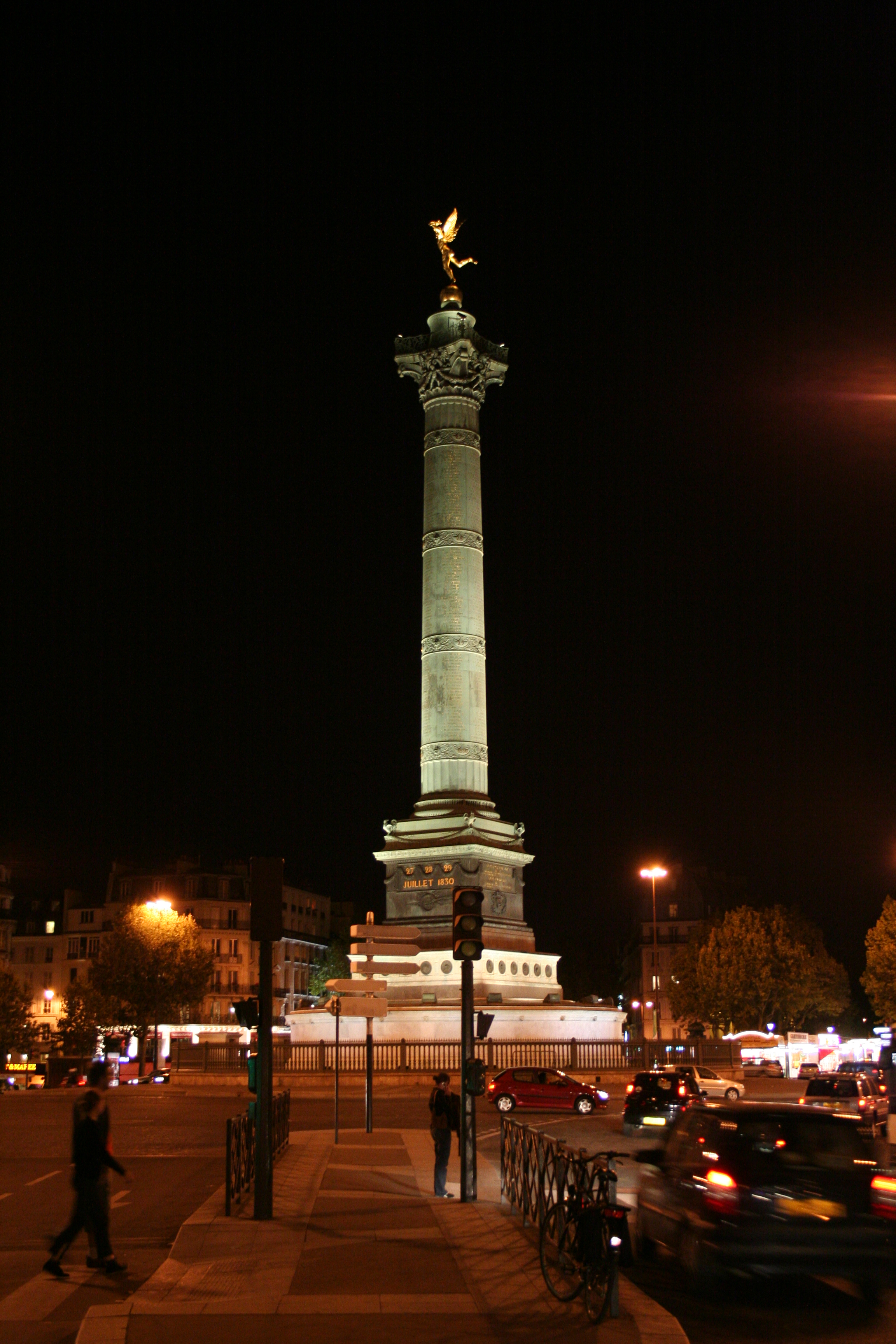 July Column place de la Bastille, by night.